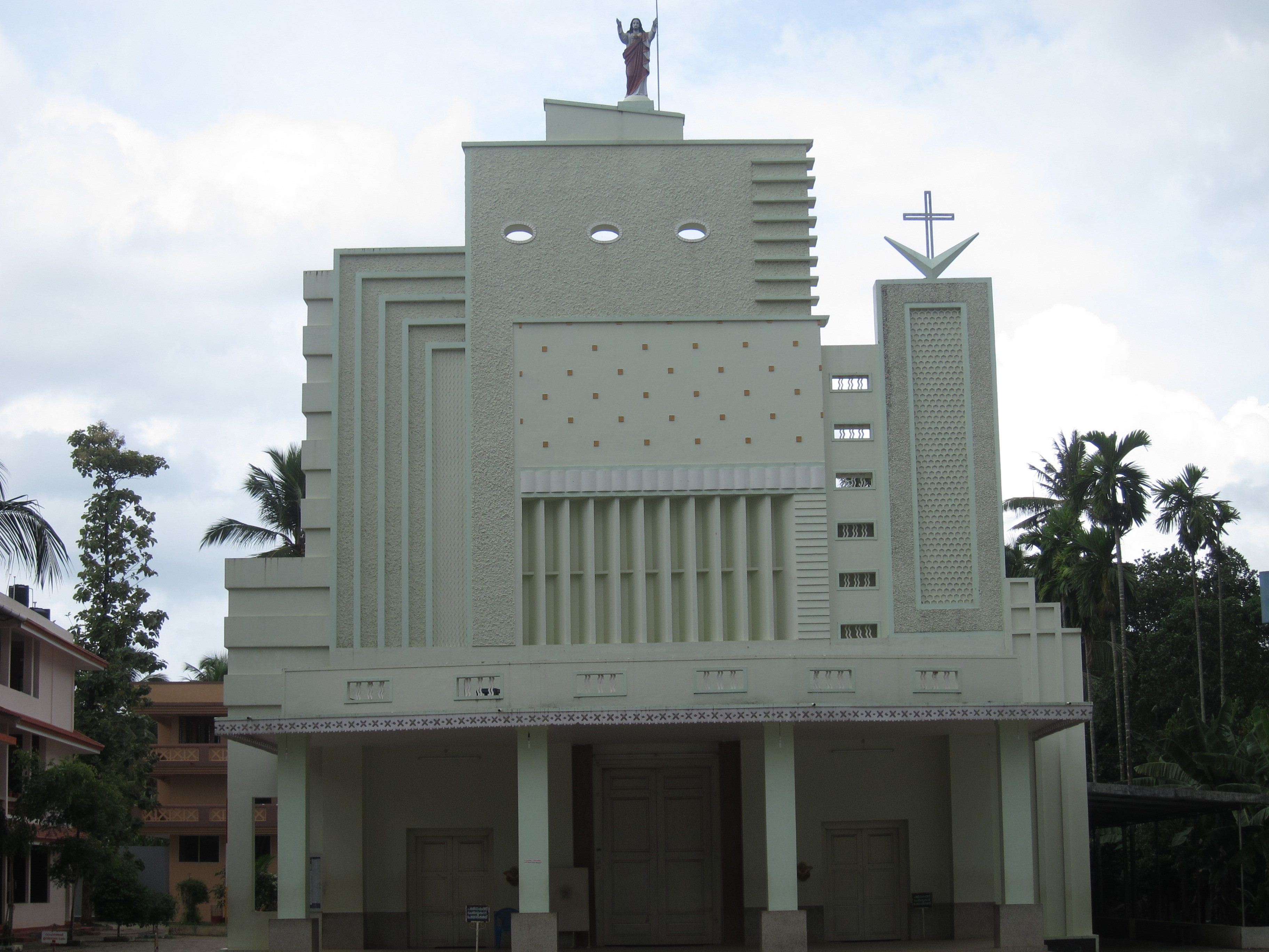 Chalakludy West Church, Irinjalakuda Diocese, Thrissur Arch-Diocese, Roman Catholic - Syro Malabar, Thrissur District, 2 km away from Chalakudy